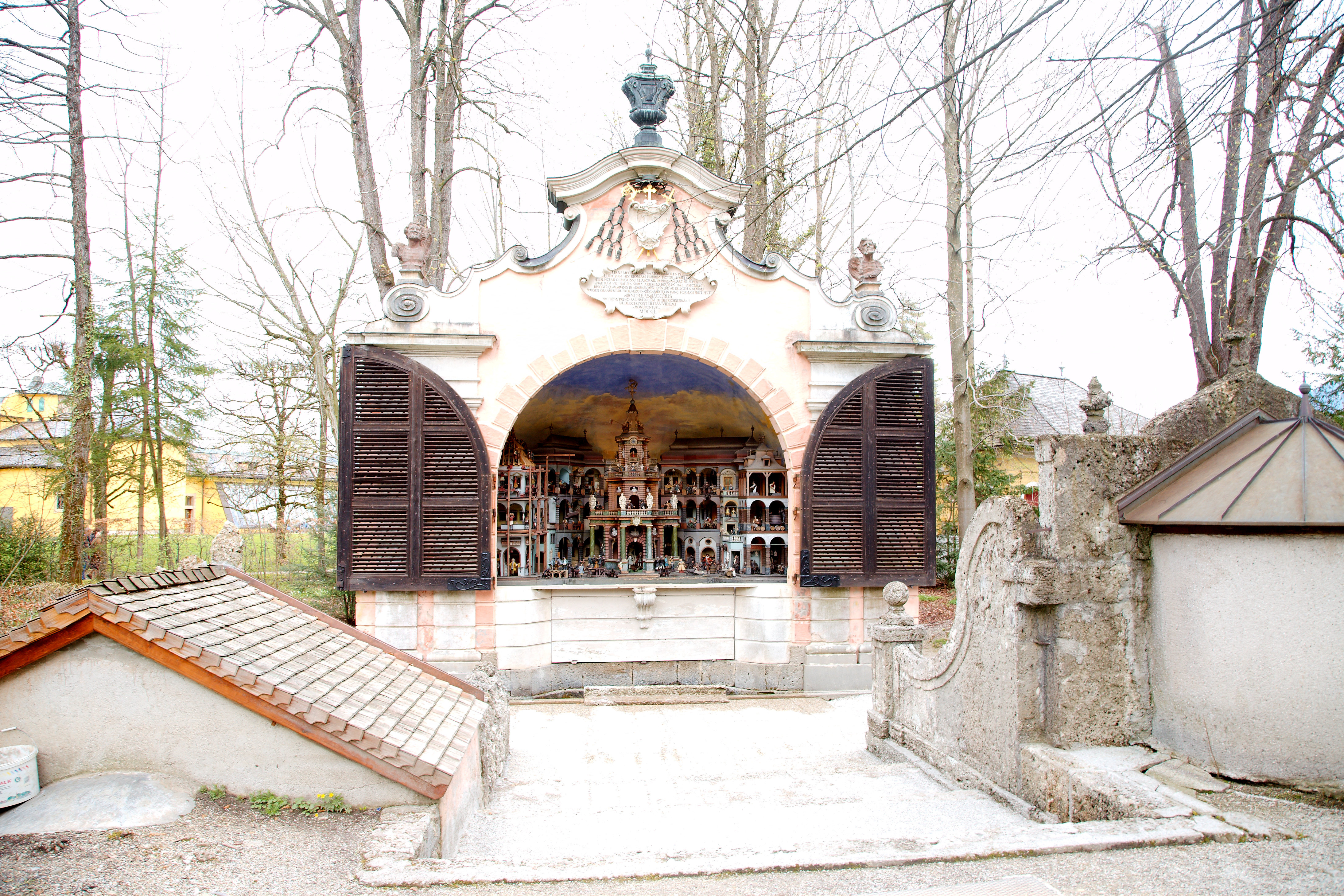 Austria, Salzburg, Hellbrunn Palace